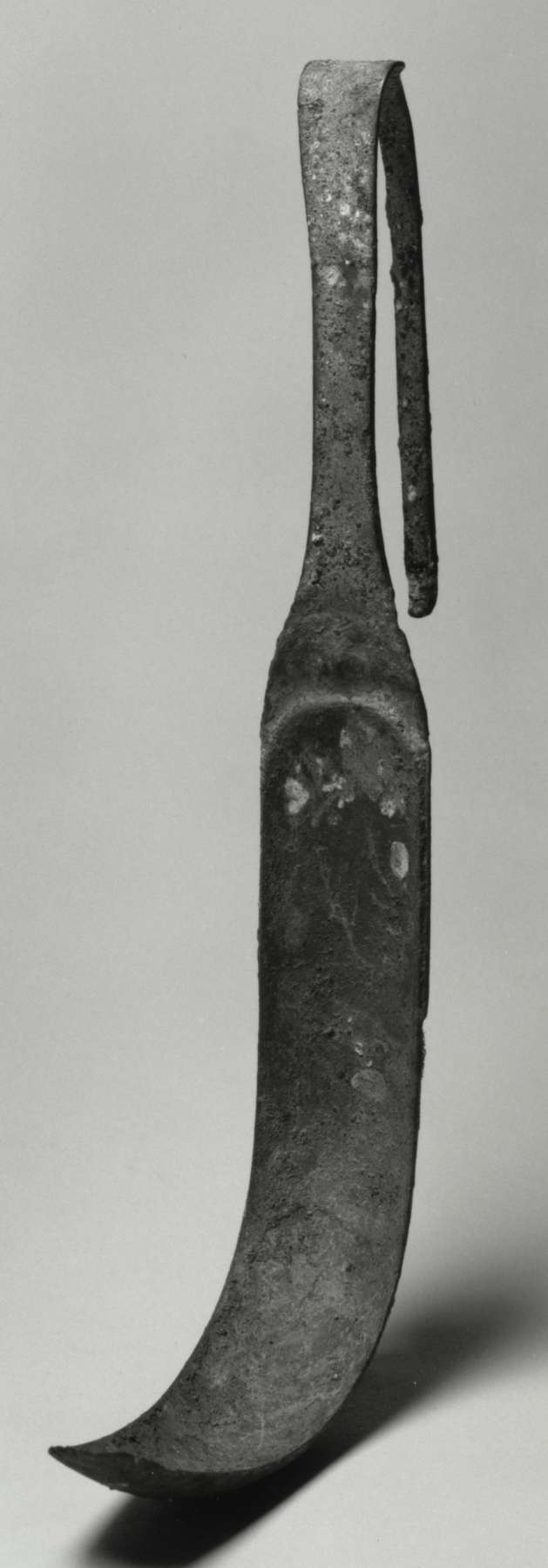 Strigils were used by Greeks and Romans to scrape layers of sand and oil from their bodies after exercising. The strigil and the "aryballos," a small oil container, were the basic equipment of all athletes in the ancient world. Grave steles, vases, and statues often depict athletes carrying or using this essential instrument of their profession.